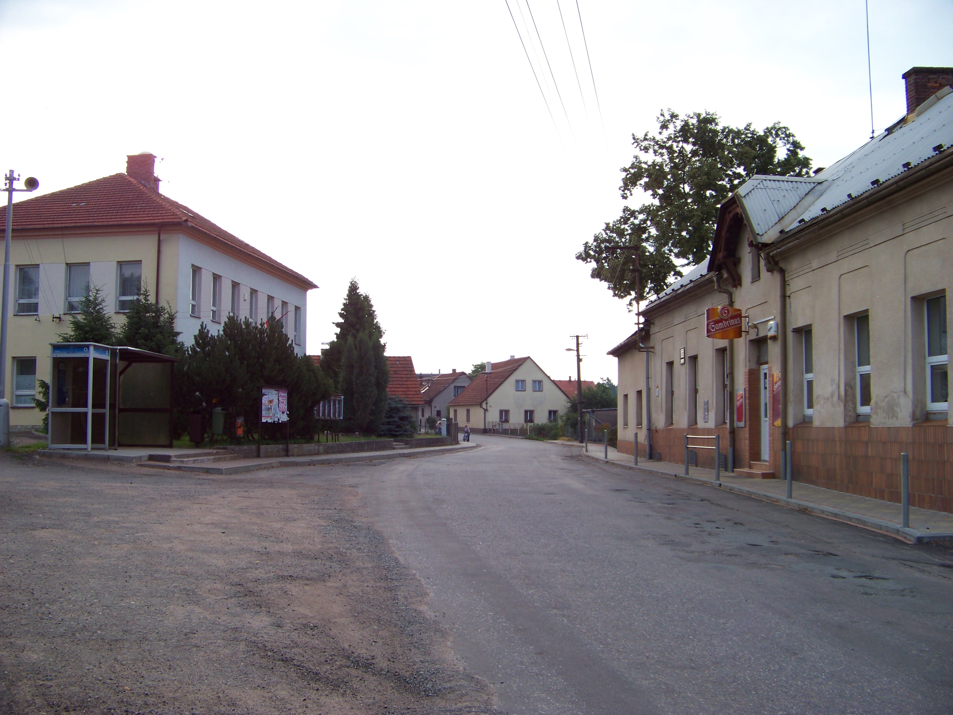 Čermná nad Orlicí-Velká Čermná, Rychnov nad Kněžnou District, Hradec Králové Region, the Czech Republic. - OpenStreetMap(Info)